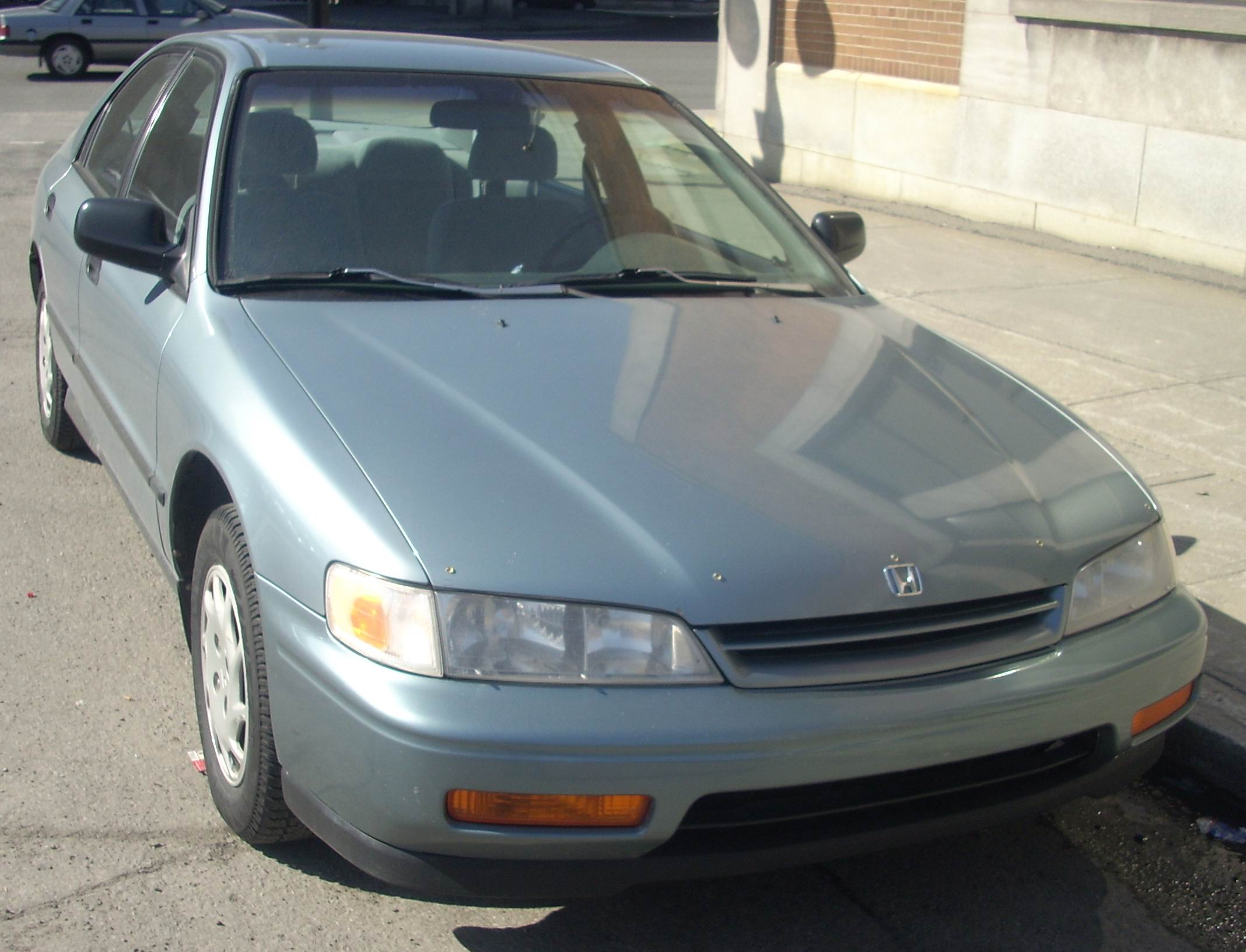 1994-1995 Honda Accord photographed in Montreal, Quebec, Canada.